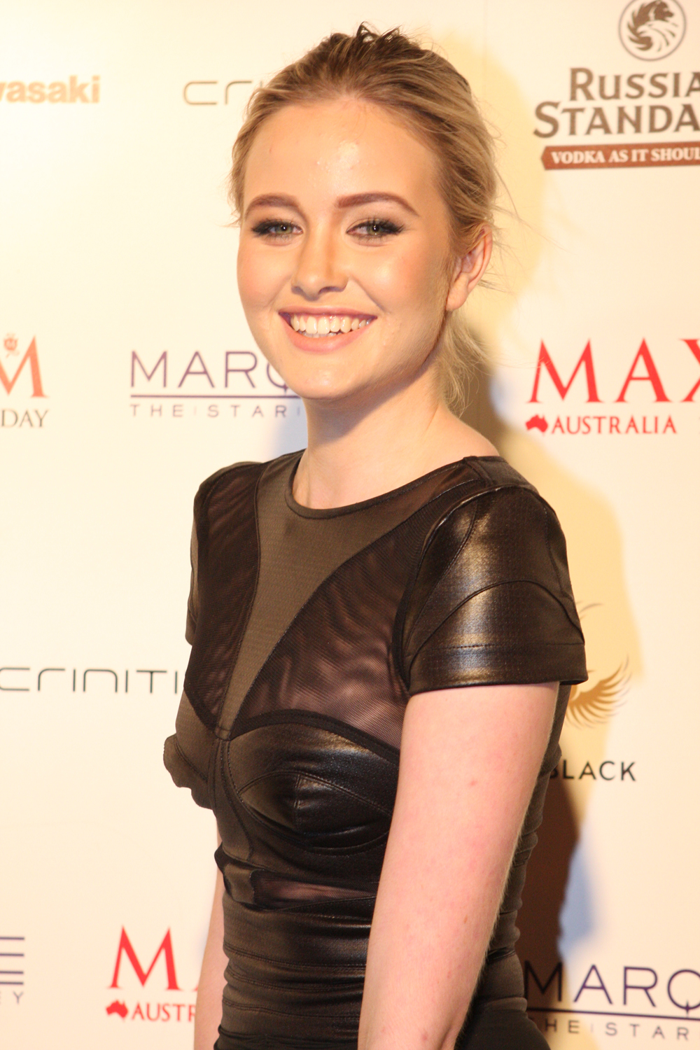 Maxim magazine celebrates 1st birthday at The Star, Sydney, Australia Marquee Sydney helps Maxim celebrate first birthday... Last night at The Star popular men's magazine, Maxim Australia, celebrated its first birthday. If you didn't know already, Maxim is a lad's mag, and this issue is blessed with Australian sports model, Lauryn Eagle. Did we mention Lauren is a boxer, kick boxer, water skier and more! She's also one of Australia's most popular sports models these days. The magazine and is sponsors, advertisers, models and everyone else associated with it should be happy with tonight's turn out, and any print magazine out of Australia that is still in business does have something to celebrate. Joining Lauryn were other names and celebs including Brittany Bloomer, Grant Dwyer, Rochelle Fox, Nacho Pop, Brittany and Anthony Cairns, Annalise Braakensiek. Well done to everyone involved in tonight's birthday success. Wrap Up... The Star's tag line is 'There will be stories', and its a sure bet Star will keep living up to that if tonight was any indication. A casino matched with Maxim Australia, a media pack, models and more - that's going to make news. Websites The Star Echo Entertainment Maxim Australia Music News Australia Eva Rinaldi Photography